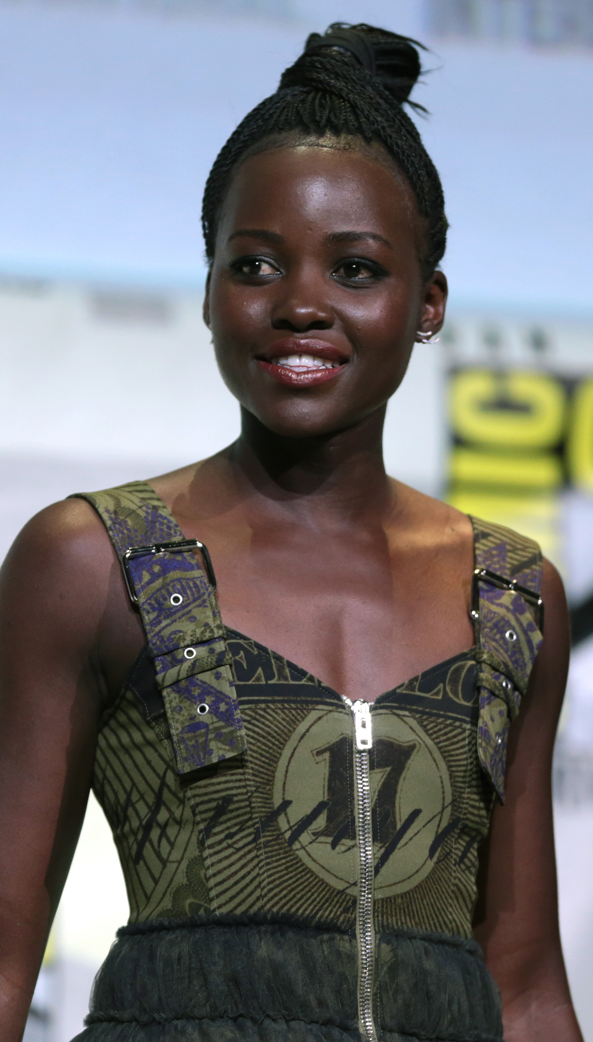 Lupita Nyong'o speaking at the 2016 San Diego Comic-Con International in San Diego, California.